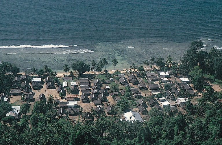 A typical, traditional self-reliant Papua New Guinean village, west of Vanimo. Even in this village, the corrugated iron roofs provide evidence of contact with the outside world.